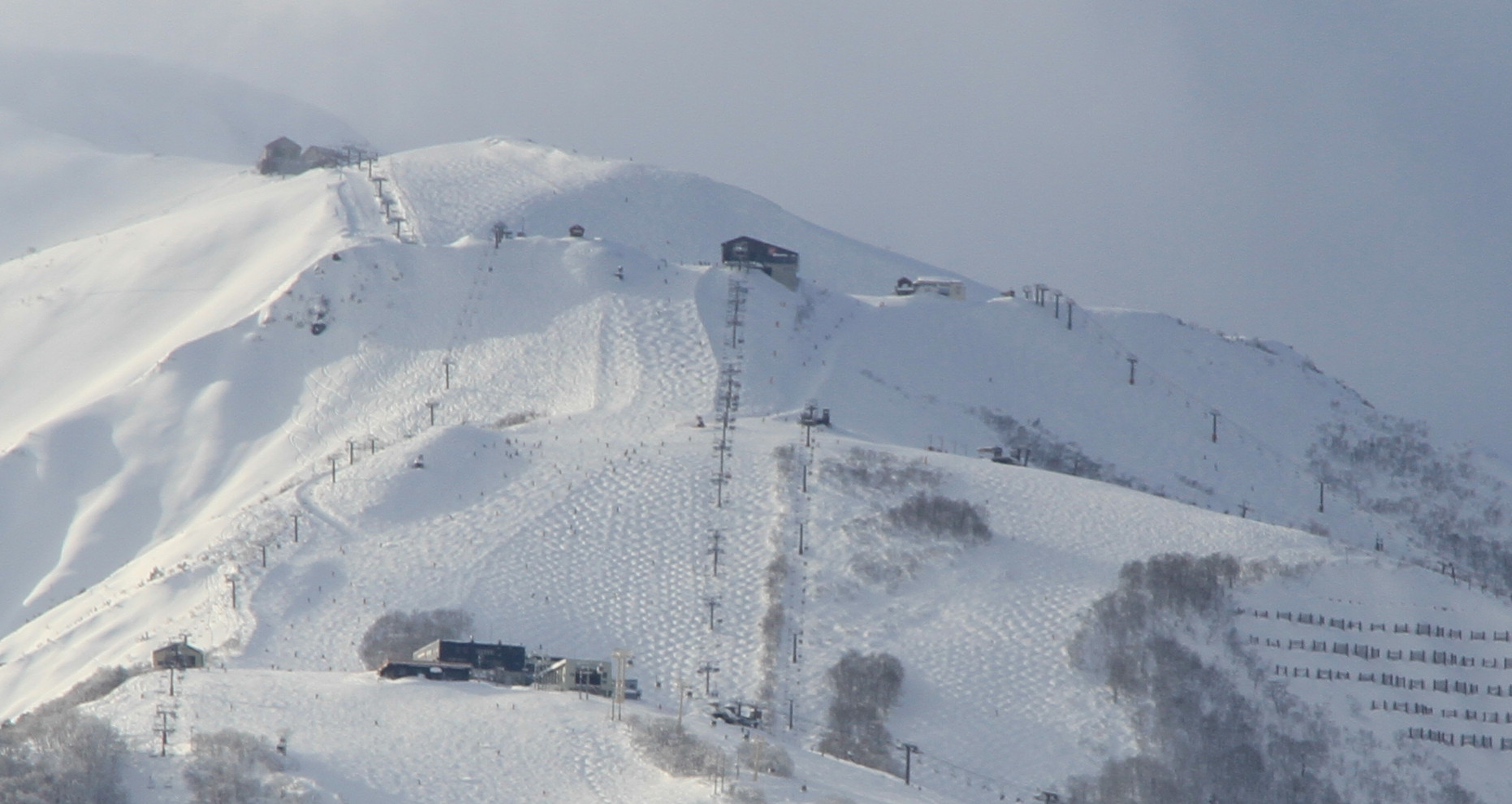 Usagidaira Happo-one Hakuba-village, Nagano, Japan